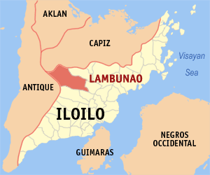 Map of Iloilo showing the location of Lambunao